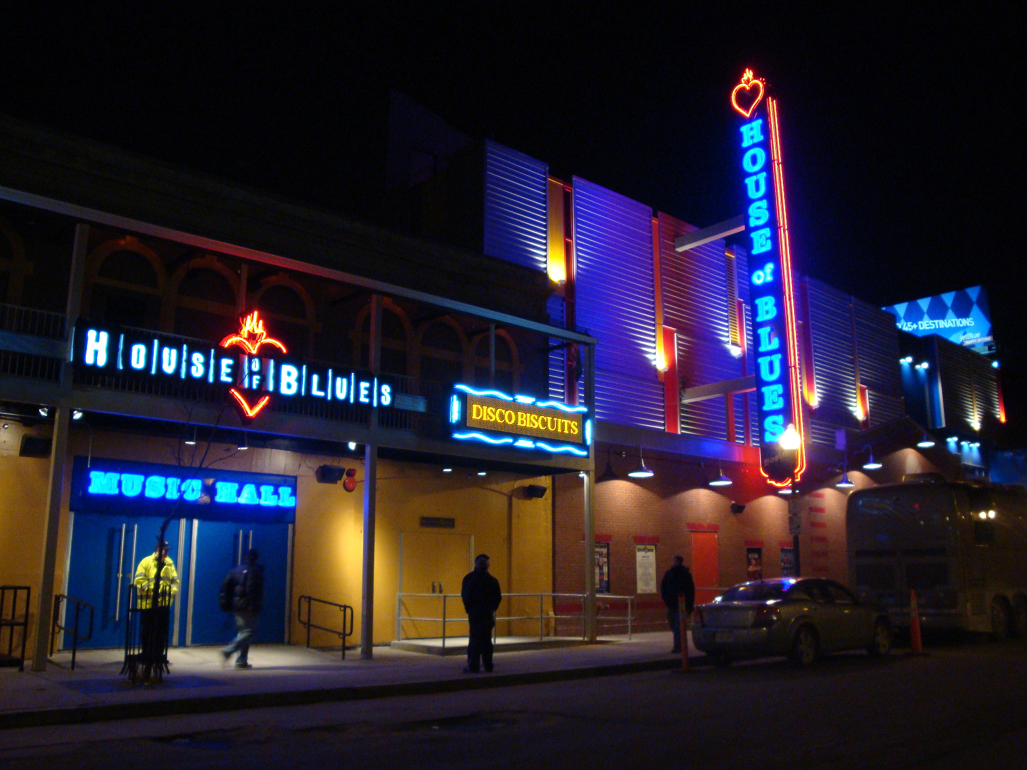 House of Blues next to Fenway Park in Boston, Massachusetts.